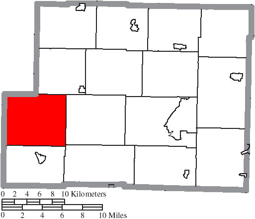 Map of the municipal and township boundaries of Harrison County, Ohio, United States, as of the 2000 census, with the location of Washington Township highlighted. Township borders are shown only in unincorporated areas in order to differentiate incorporated and unincorporated areas more clearly.